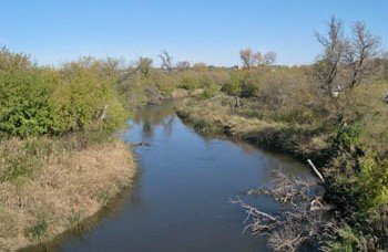 The James River in Jamestown, North Dakota, looking upstream